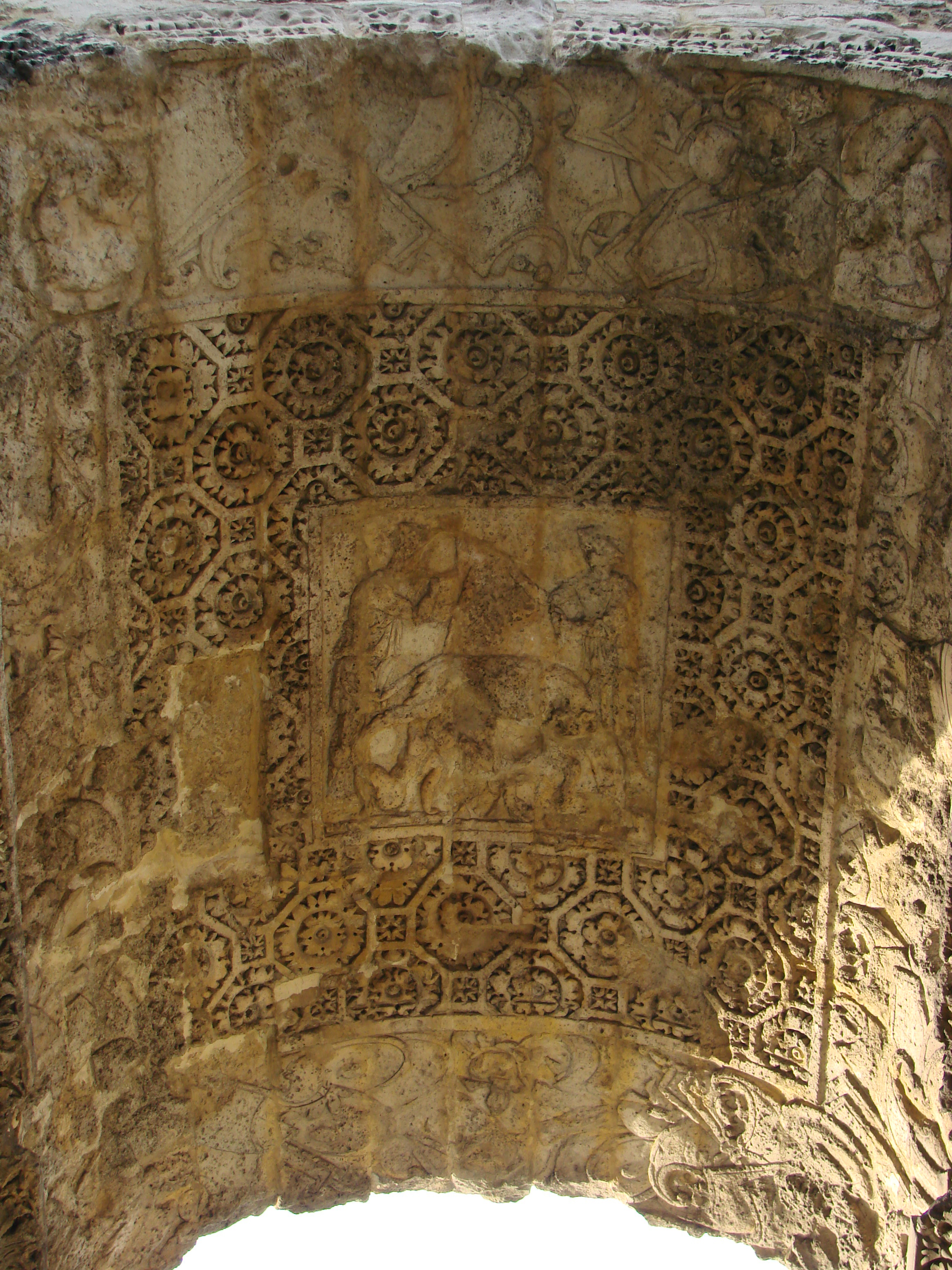 La Porte Mars (the Mars Gate), triumphal arch of the Gallo-Roman town (Durocortorum); 3rd century; Reims, France.Ceiling of the middle arch: Remus and Romulus.